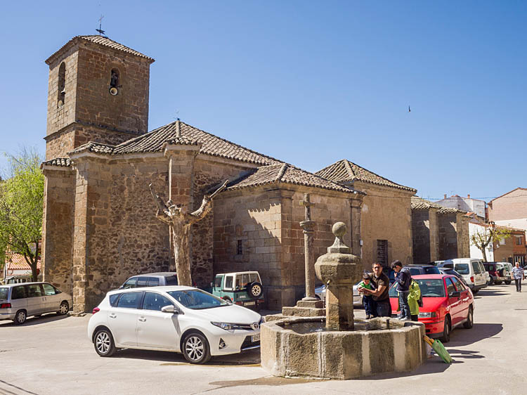 Iglesia de la Concepción.